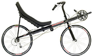 Bacchetta Corsa model, from website with permission